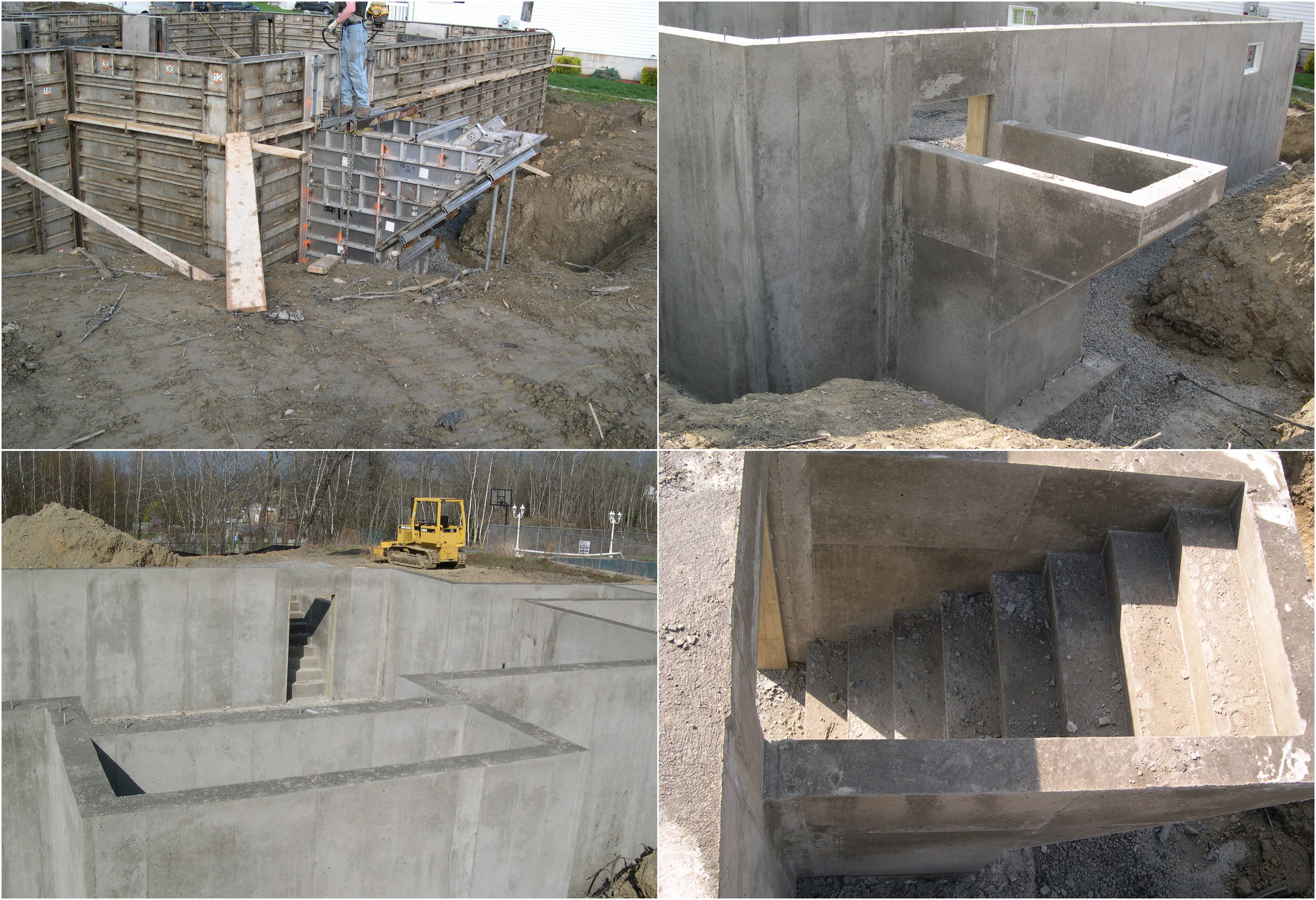 Walk up basement constructed using aluminum concrete forms.